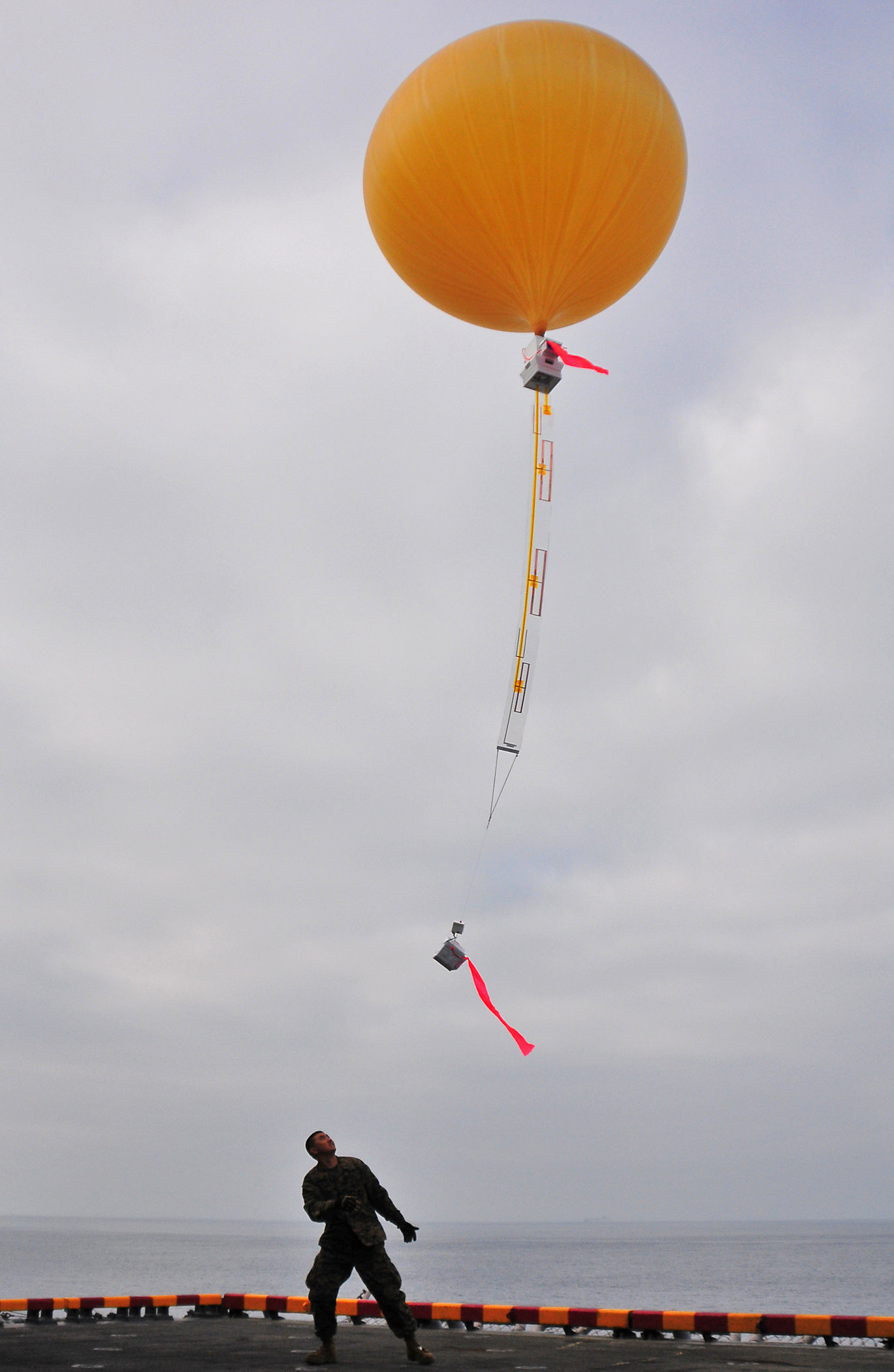 PACIFIC OCEAN (Dec. 3, 2008) A Marine assigned to the 13th Marine Expeditionary Unit (13th MEU) releases a Combat Sky satellite communication balloon from the deck of the amphibious assault ship USS Boxer (LHD 4). Boxer is supporting the 13th Marine Expeditionary Unit Certification Exercise to prepare for an upcoming deployment. (U.S. Navy photo by Mass Communication Specialist 2nd Class Daniel Barker/Released)